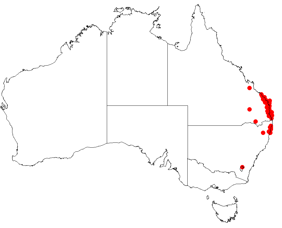 Hakea actites Occurrence data downloaded from Australasian Virtual Herbarium on 22 November 2018 using